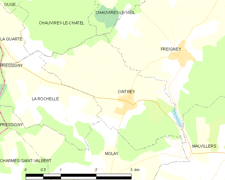 Map of French municipality